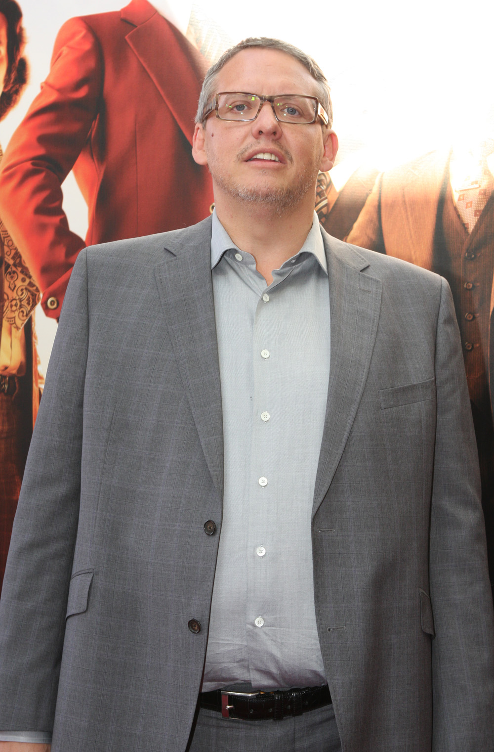 Adam McKay at the Anchorman 2 The Australian Premiere 2013.